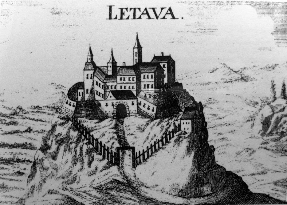 Castle Lietava from south, 2nd half of 17. century